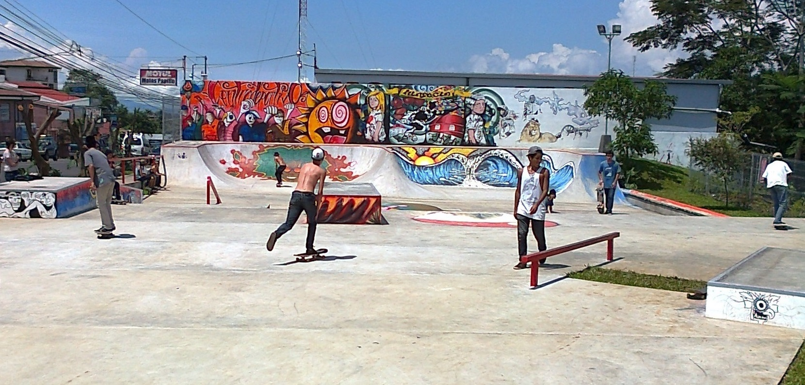 Skatepark Meza, Alajuela